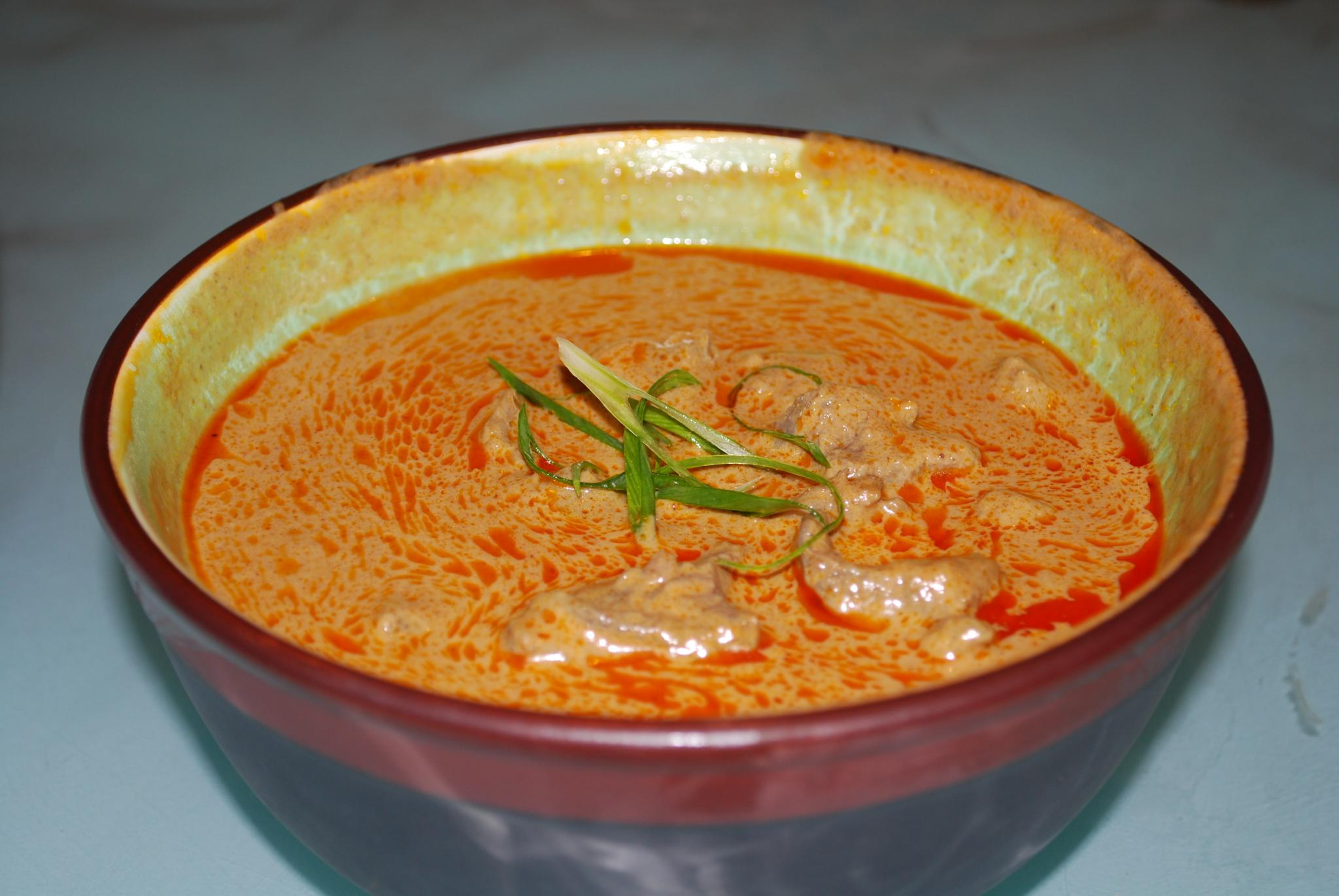 Shanny's Thai Panang Curry Beef